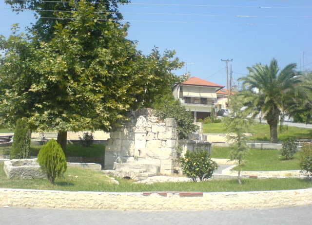 Fountain in centre of Pella/Postol, Aegean Macedonia, Greece